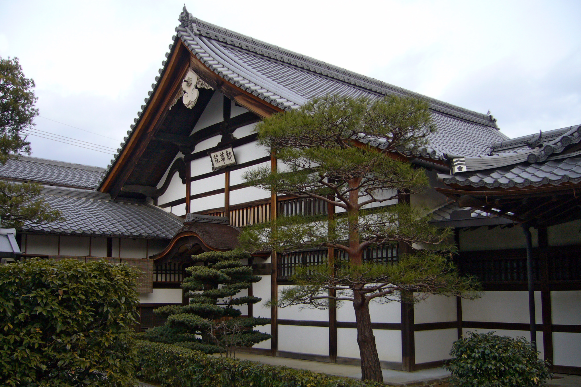 Myoshinji Rinkain, Kyoto, Kyoto prefecture, Japan